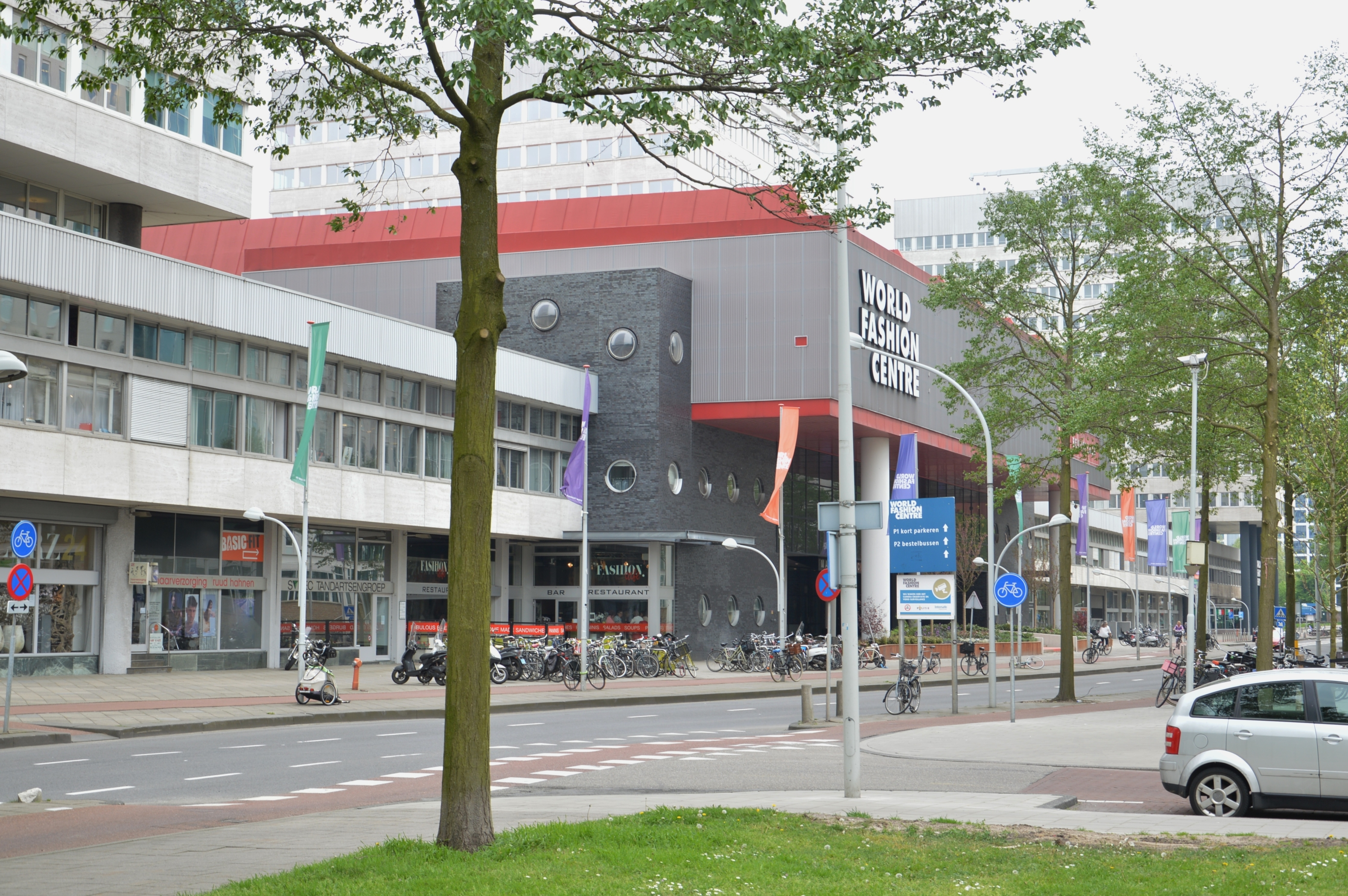 Main entrance World Fashion Centre, Amsterdam, the Netherlands.